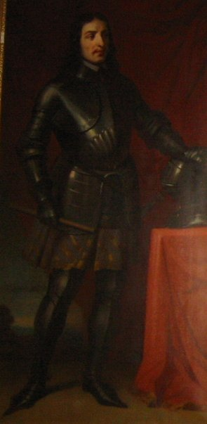 Reginald I, Count of Burgundy (b.986, r.1026, d.1057), the second Count of the Free County of Burgundy